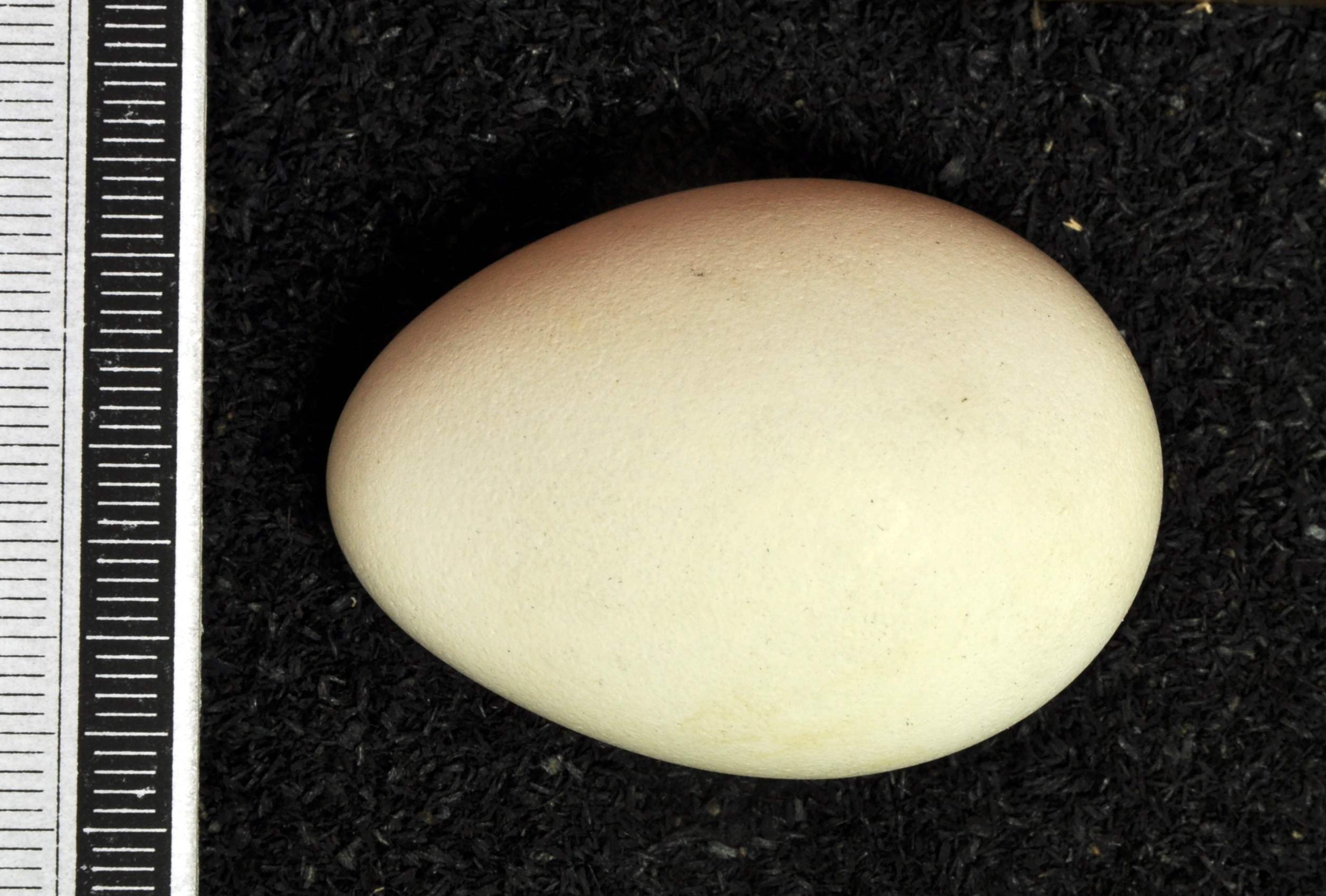 Barn owl Tyto alba , egg, Coll. Museum Wiesbaden